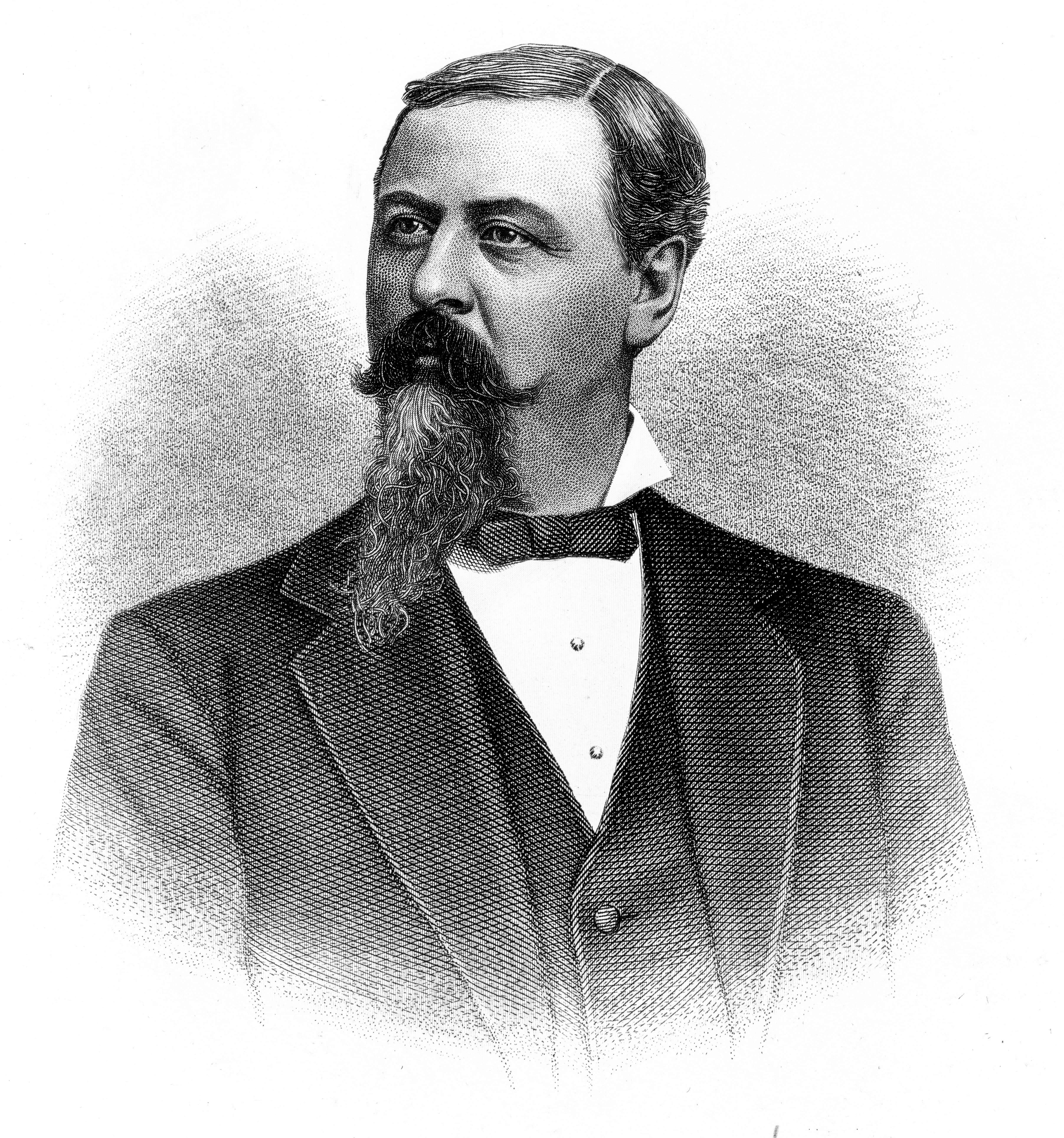 Source: Biographical Cyclopedia of Representative Men of Rhode Island, Volume 2, 1881